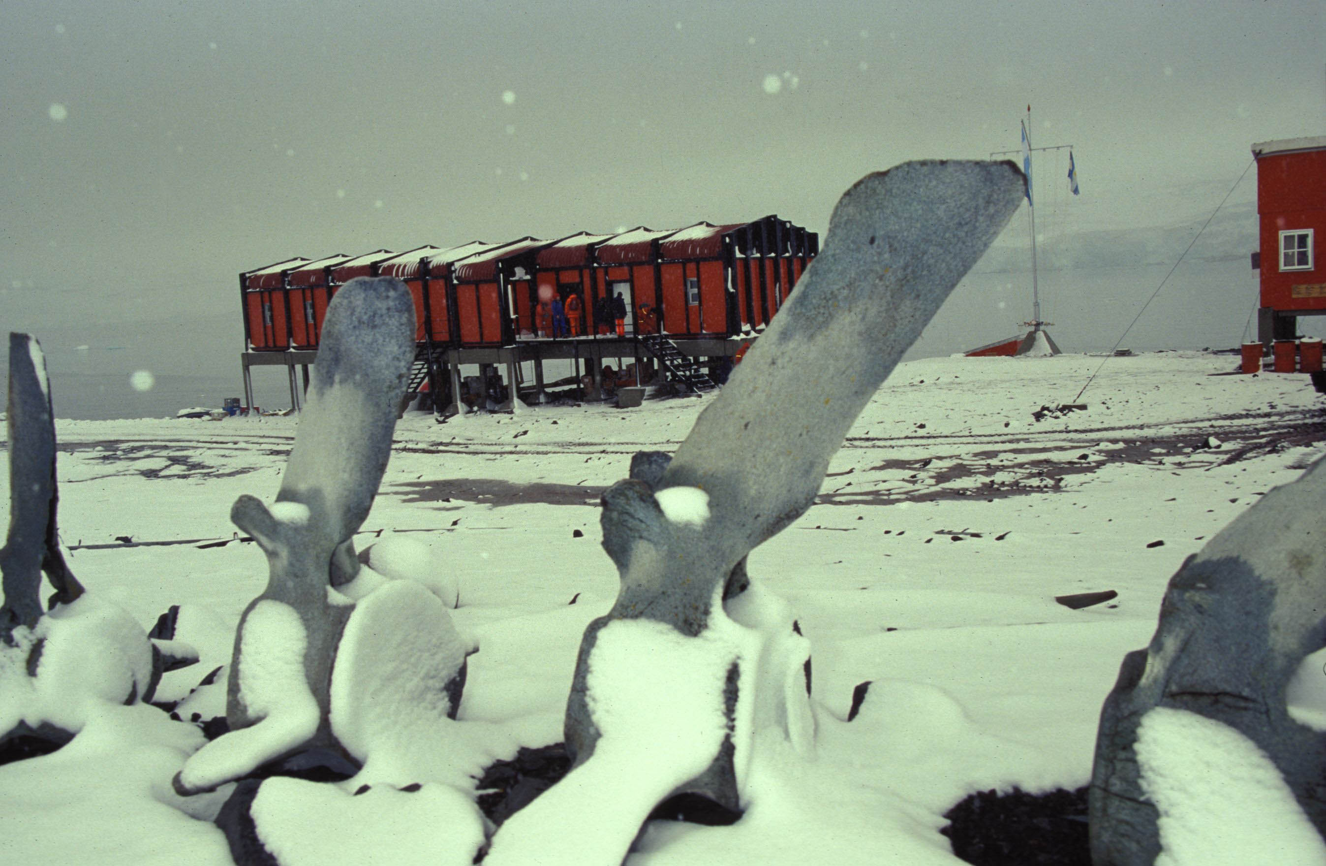 Dallmann laboratory on King George Island, Antarctica. The lab ist operated by the Alfred Wegener Institute for Polar and Marine Research since 1994 in cooperation with and close neighborhood of the Argentine station Jubany.